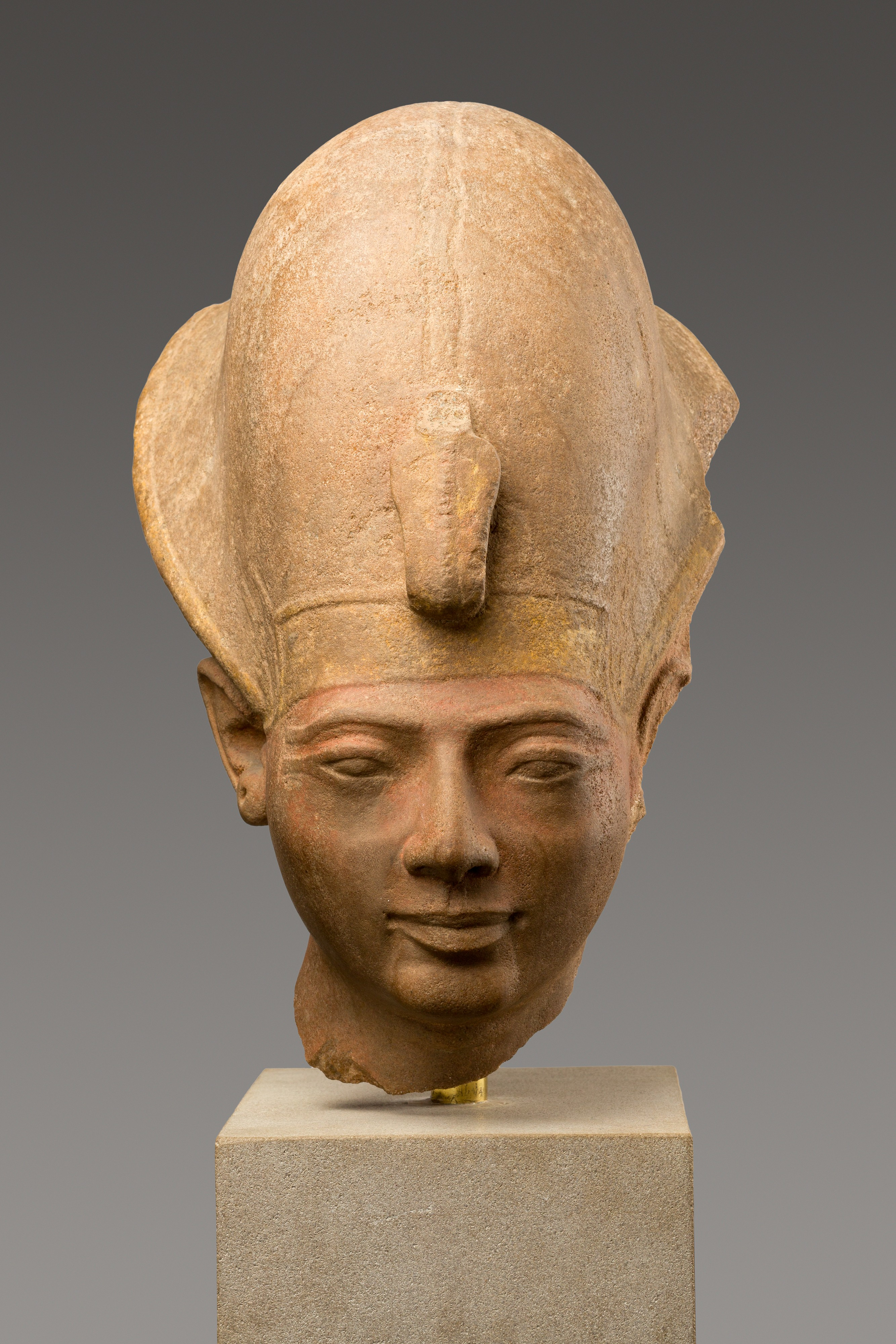 Head, Amenmesse, blue crown